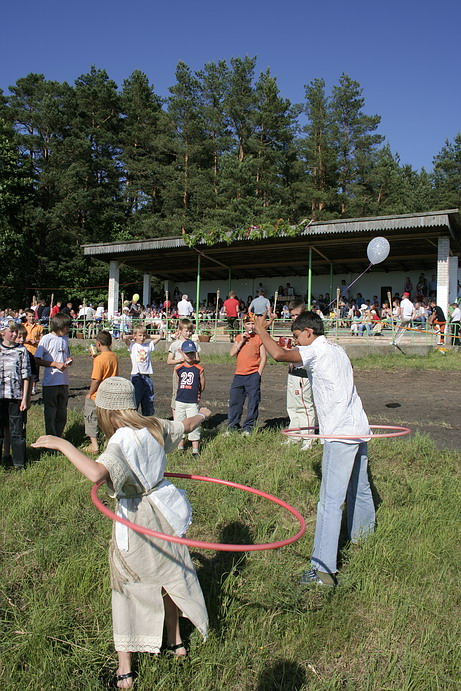 Saint Jonas' Festival (Midsummer) celebration in Vepriai (Lithuania) hippodrome in 2006